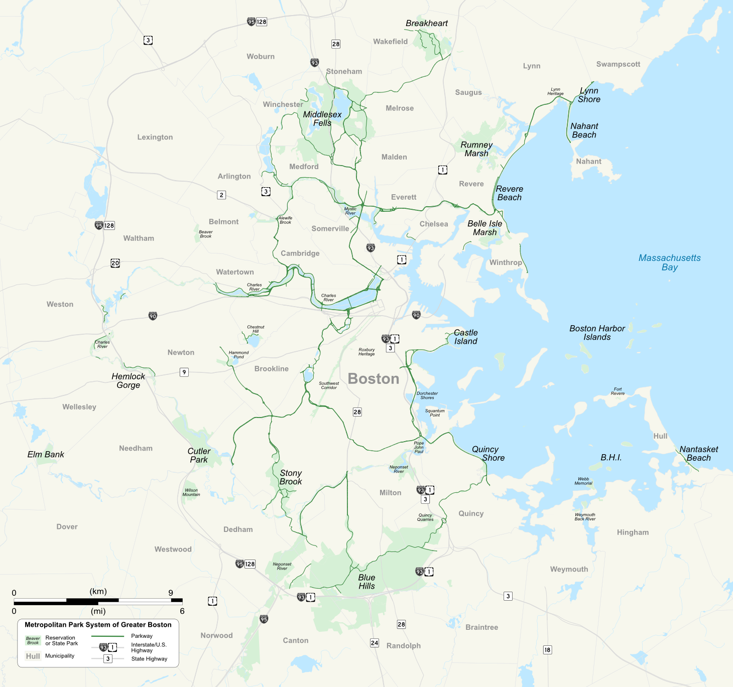 Map showing the Metropolitan Park System of Greater Boston in Massachusetts, United States with legend